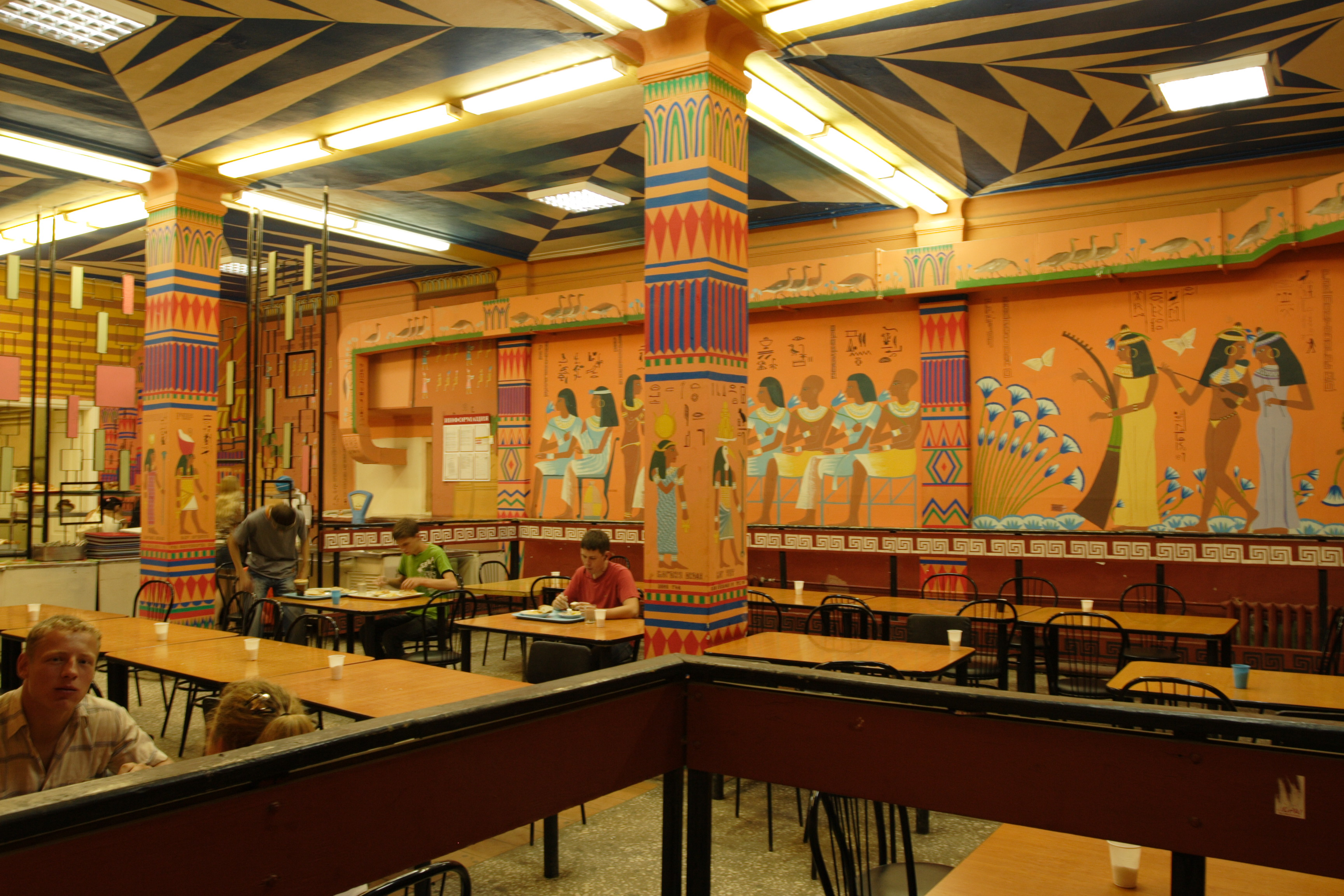 nice Africa motives in a canteen of Yekaterinburg's State University.